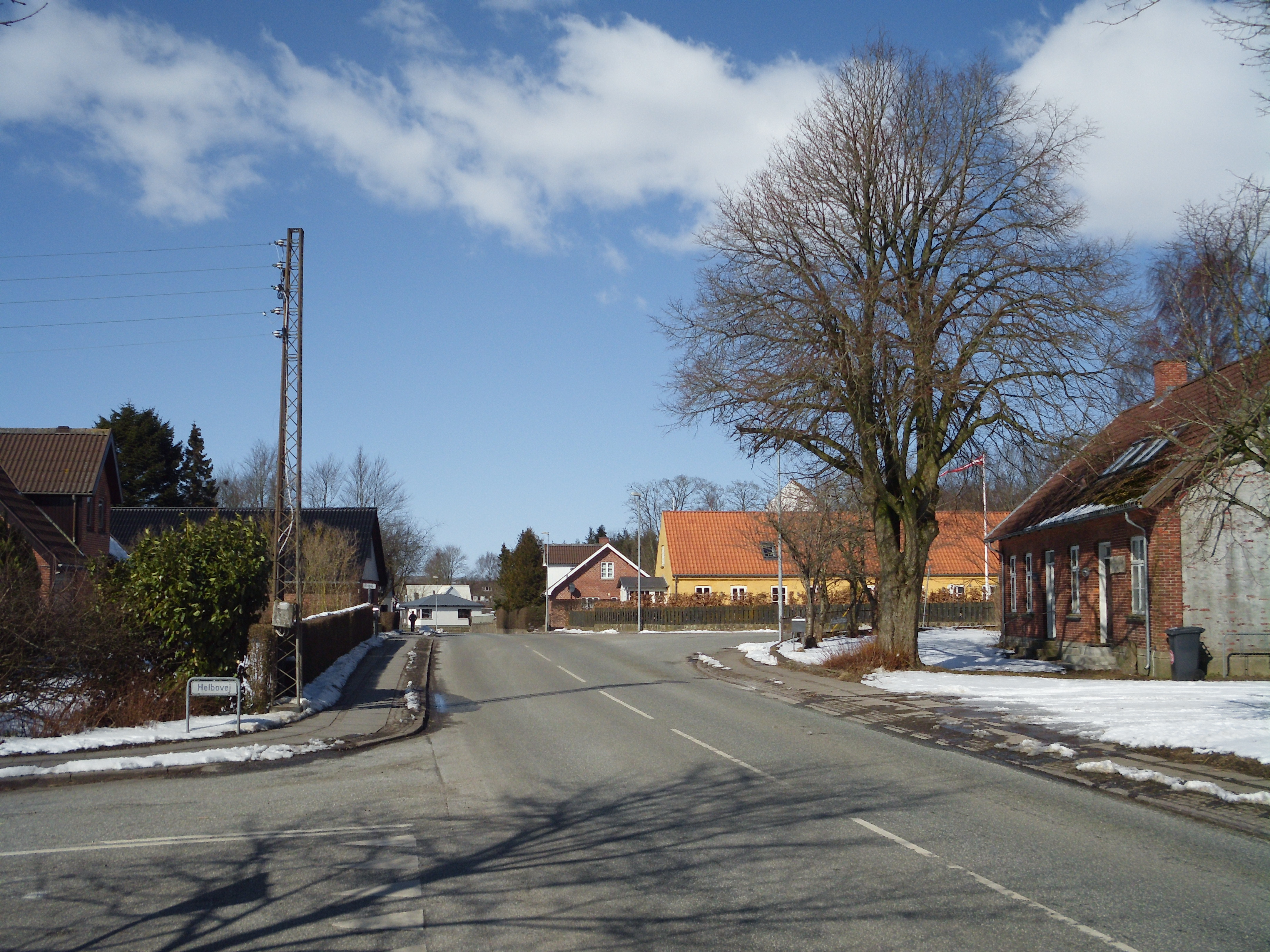 View of a center of Mejlby, a village outside Aarhus, Denmark, at a crossroads of Mejlbyvej (the main road) and Helbovej (turning left).